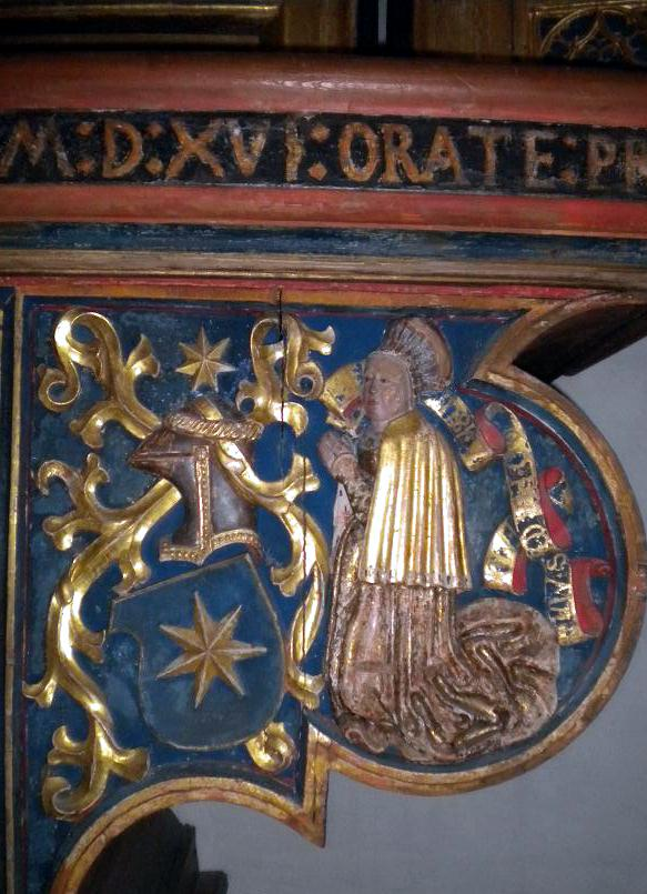 Kristina Nilsdotter Gyllenstierna (wife of regent Sten Sture the Younger) depicted in a contemporary altar sculpture at West Aros (Västerås) Cathedral, as released by image creator RistessonPlace: West Aros, Sweden